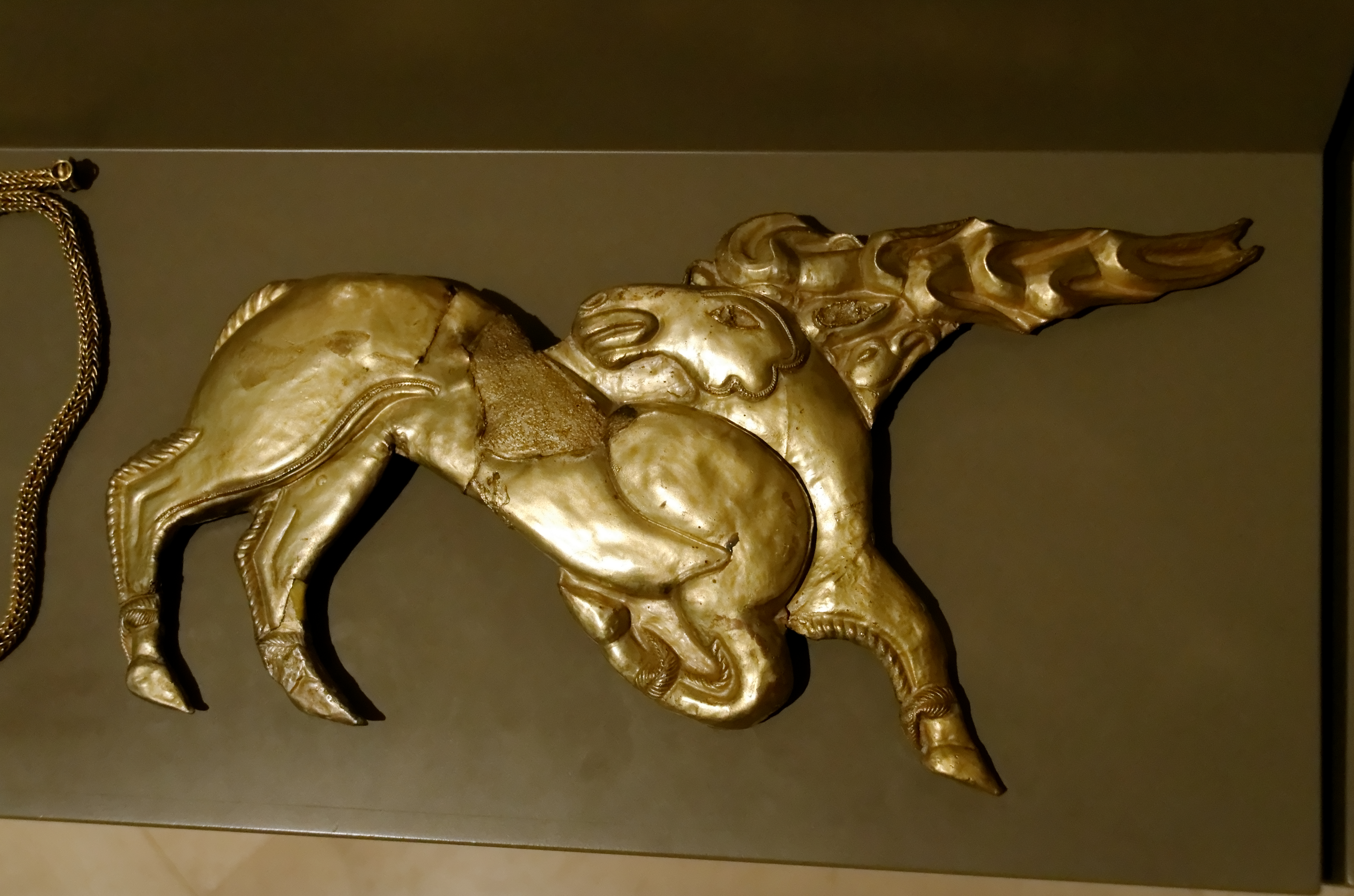 Golden deer. Made by Scythia VI century BC. Hungarian national museum, Budapest